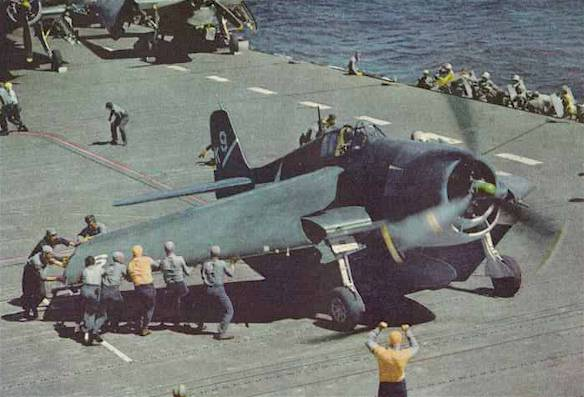 A U.S. Navy Grumman F6F-3 Hellcat (BuNo 41090) of Fighter Squadron 1 (VF-1), Carrier Air Group 1 (CVG-1), aboard the aircraft carrier USS Yorktown (CV-10) in June-July 1944. During this period Yorktown took part in the capture of Saipan, 1st Bonin raid, Battle of the Philippine Sea, 2nd & 3rd Bonin raids, capture of Guam, and raids on Palau, Yap, and Ulithi.